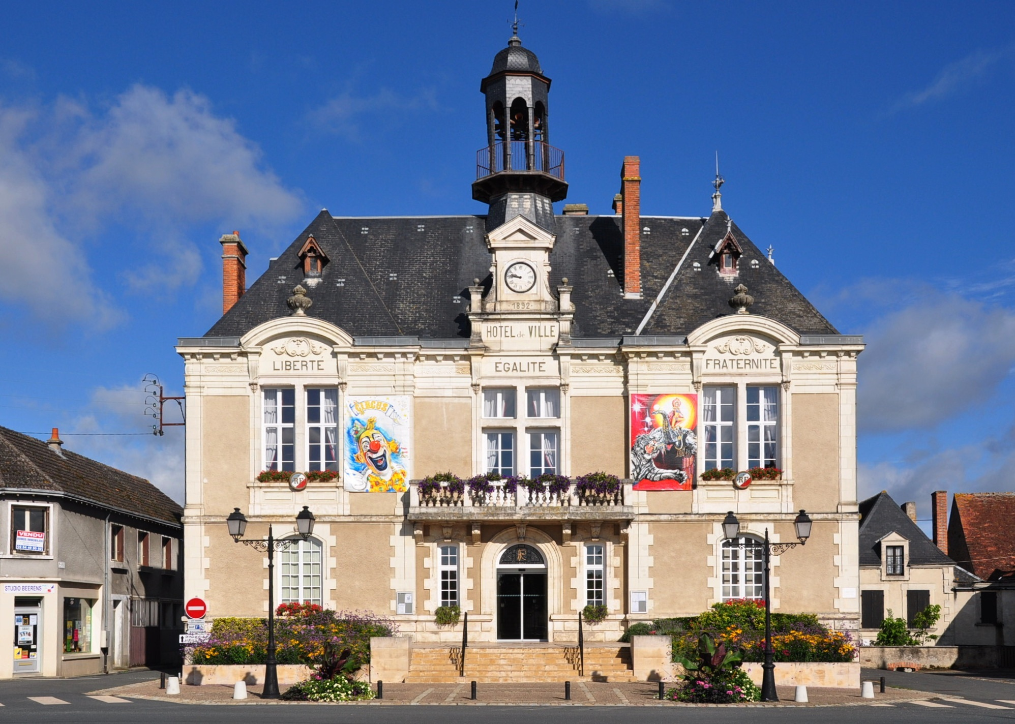 Town Hall (of 1892) of Vatan (Indre, France)